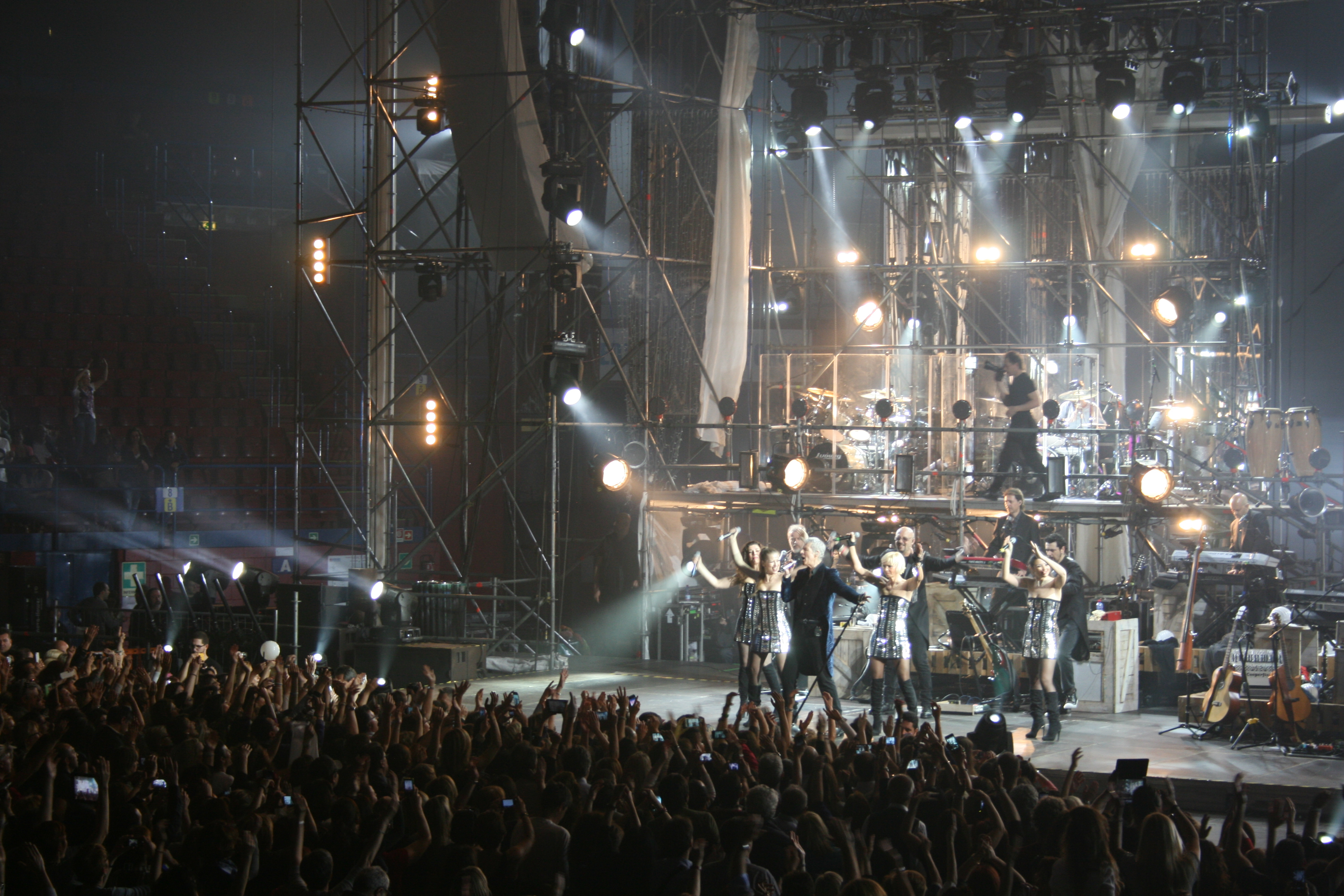 Claudio Baglioni live in Milan (Mediolanum Forum). Photo by Melania Iafisco